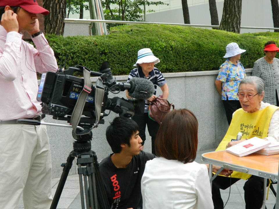 Comfort Women, rally in front of the Japanese Embassy in Seoul, August 2011 (4)